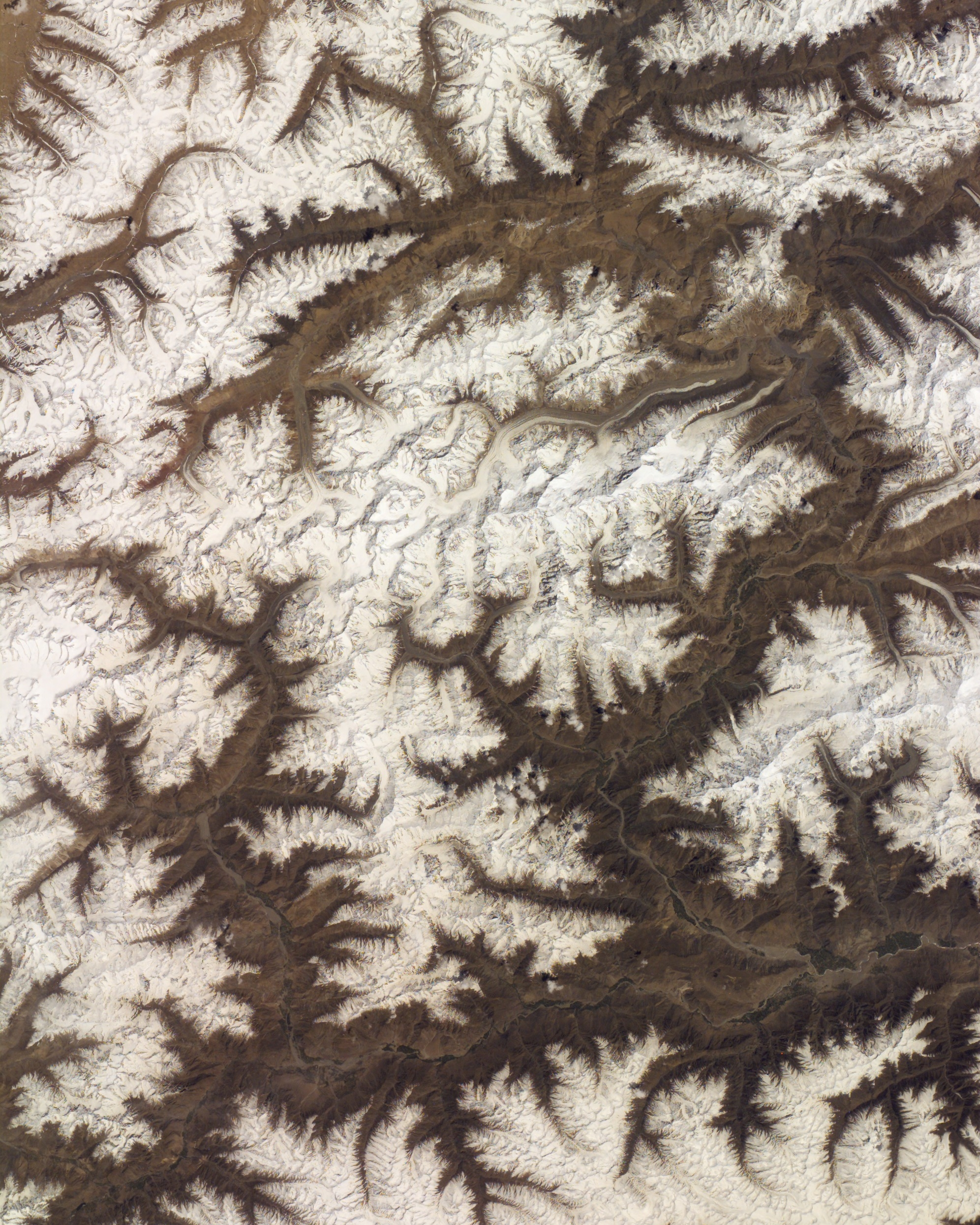 The Batura Muztagh, westernmost part of the Karakorams, from the International Space Station (ISS). North is at about 11 o' Clock)